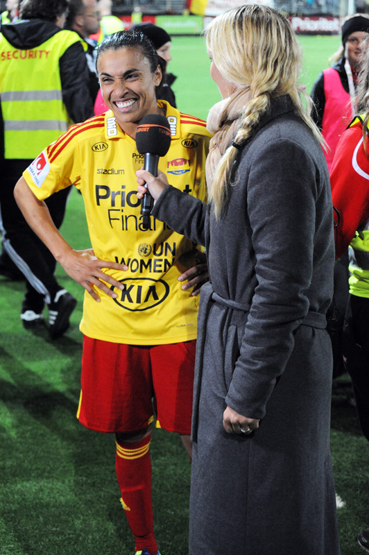 Marta interviewed by Anna Brolin of TV4 after a UWCL match with Paris-Saint-Germain